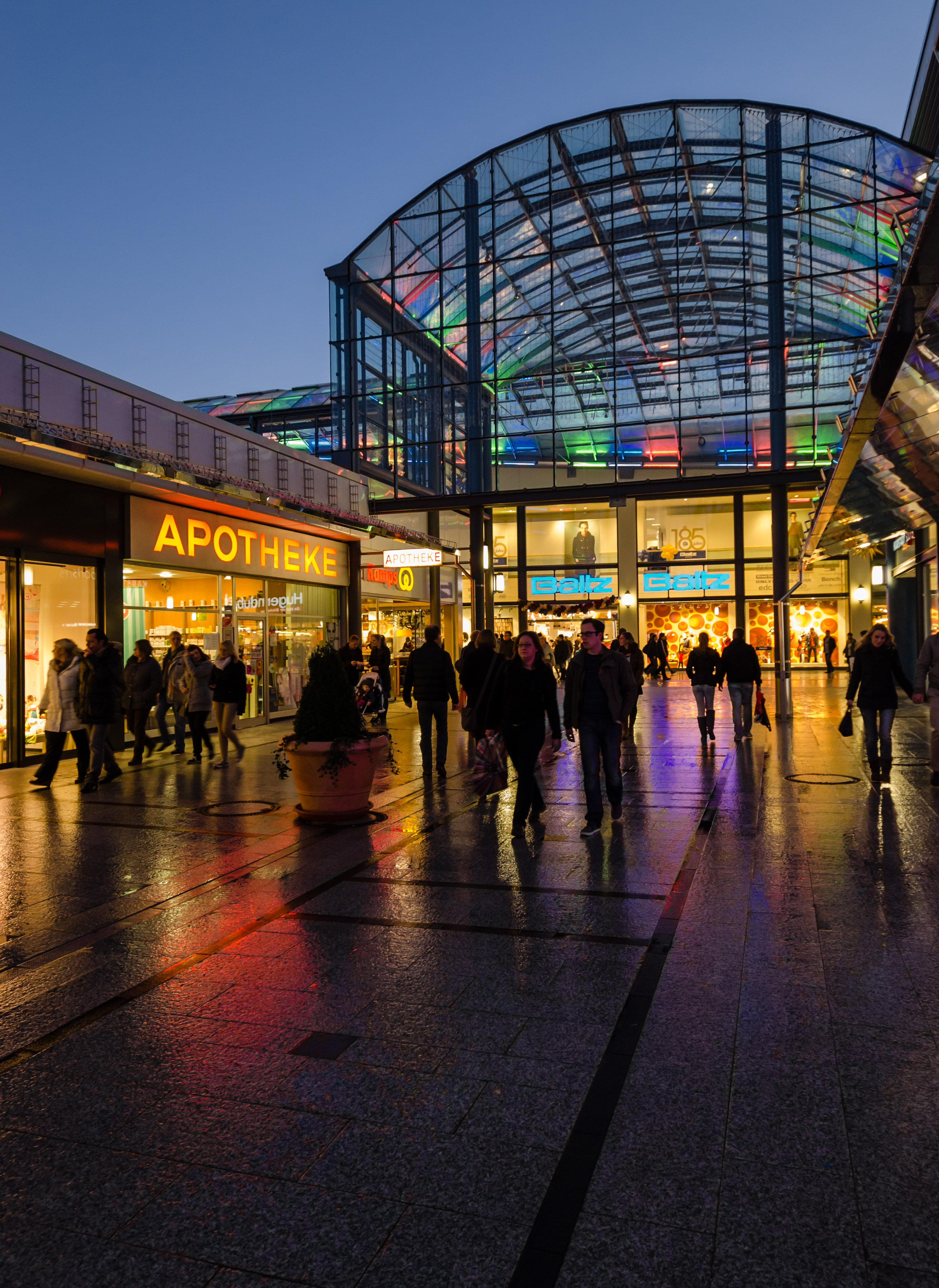 Shopping center "Ruhr-Park" in Bochum